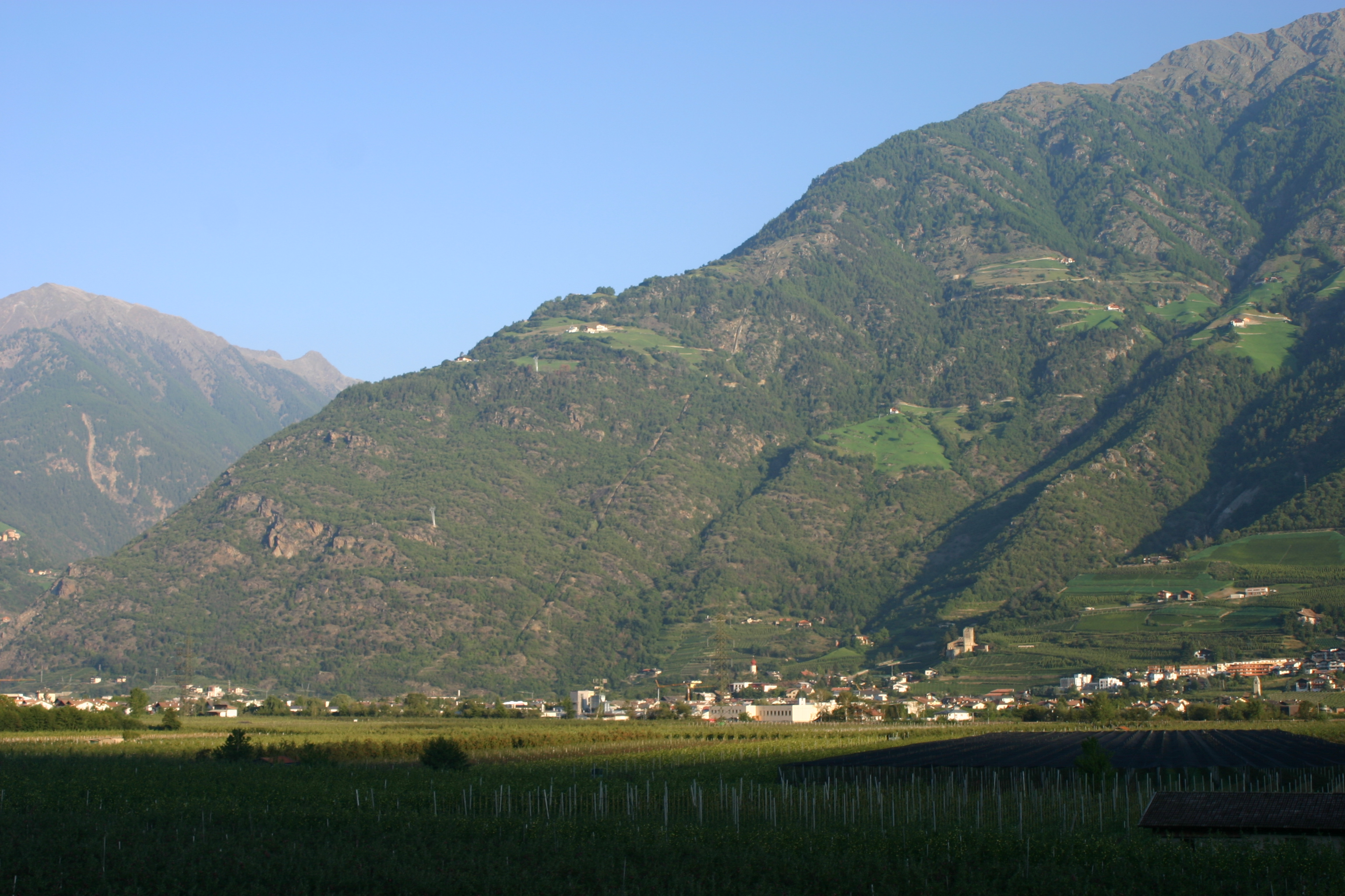 Naturns in South Tyrol, Italy